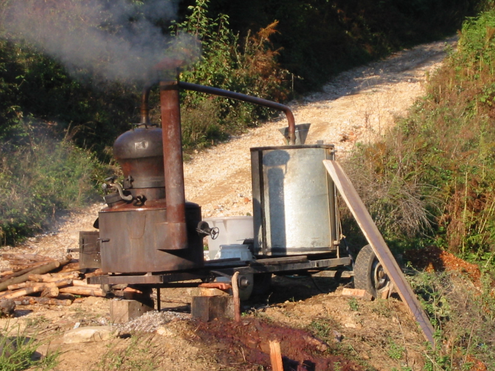 Distillery somewhere in Bosnia